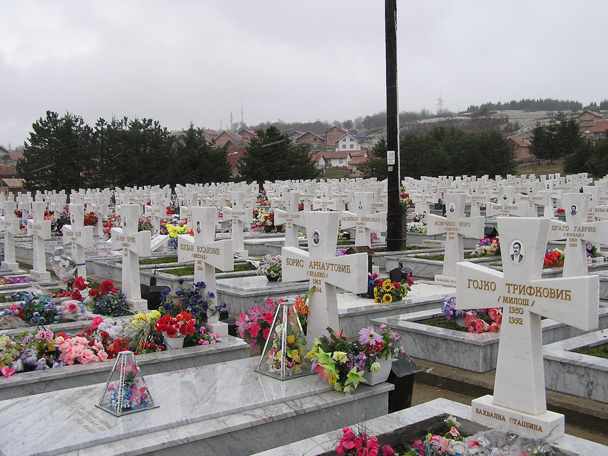 A serbian-orthodox cemetery in Bratunac for the civil victims of the war in Bosnia.